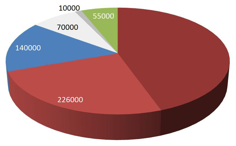 Numerical limits for different groups of new green cards per year: immediate family members (dark red; no numerical limit, average number of 402000 per year in 2000-2003), other family members (light red), employment based (blue), refugees (light grey), asylum based (dark grey), and "green card lottery" (green). Data source: The Economic Report of the President 2005, p. 113